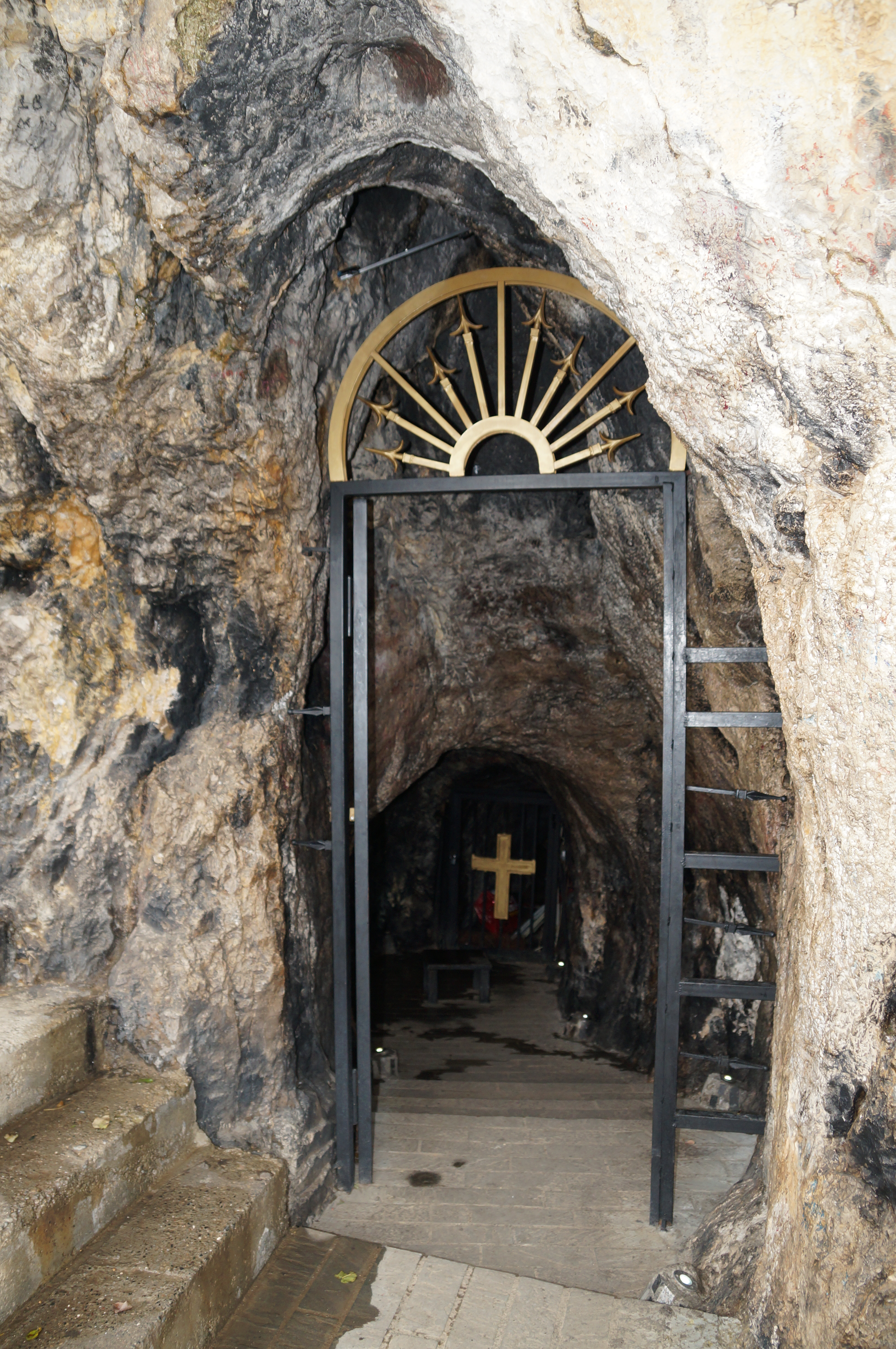 Cave of Saint Blase, Shën Ndout Monastery, Laç, Albania